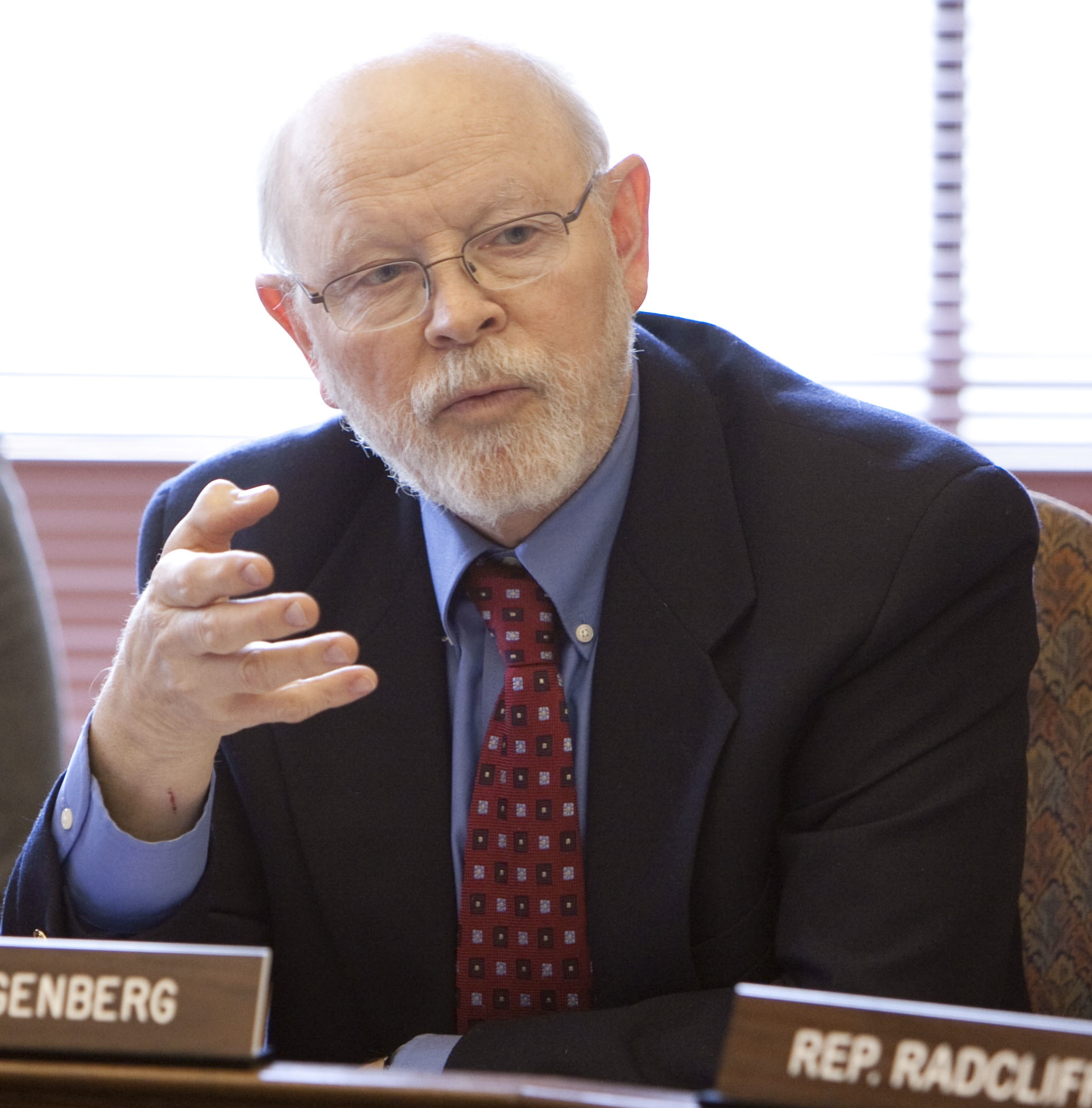 Former Wisconsin State Assemblyman Steve Hilgenberg.